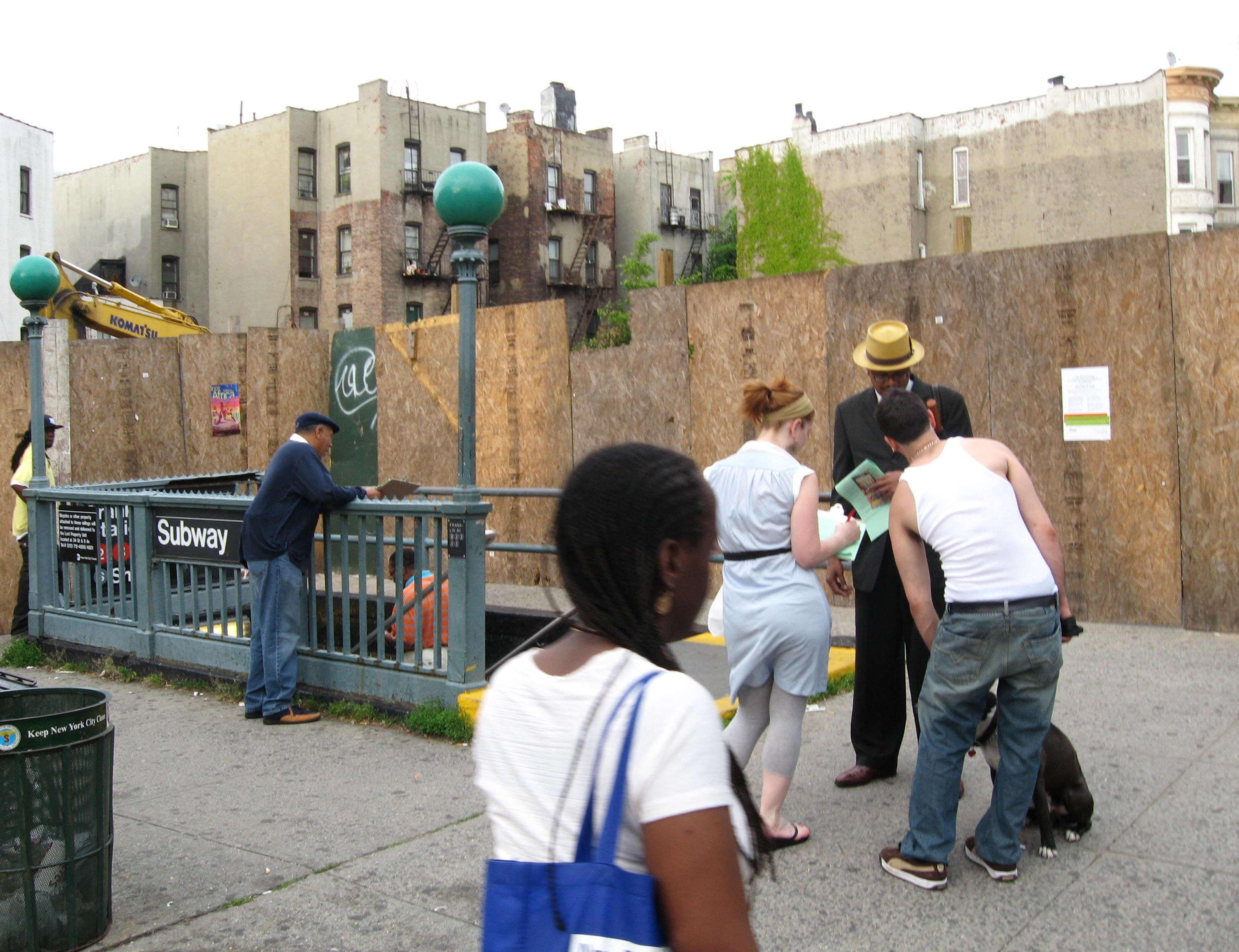 Looking northeast at eastern street stair of Franklin Avenue–Botanic Garden (New York City Subway) on a cloudy late afternoon.